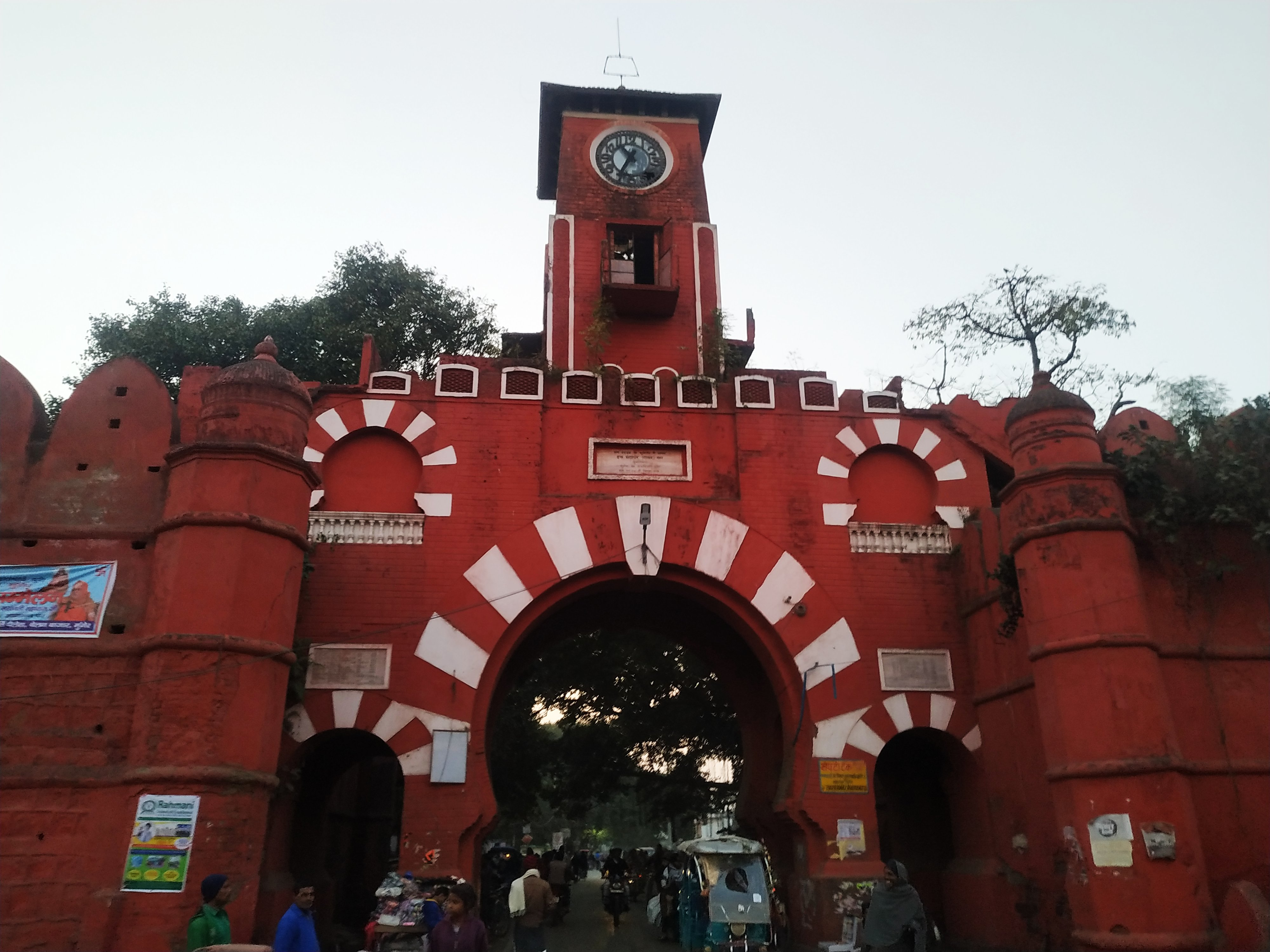 Munger Fort Munger